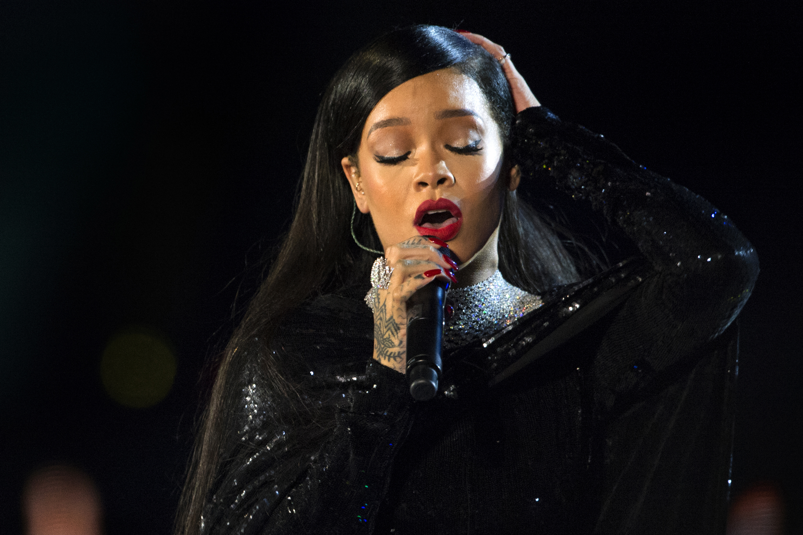 Rihanna sings during The Concert for Valor in Washington, D.C. Nov. 11, 2014